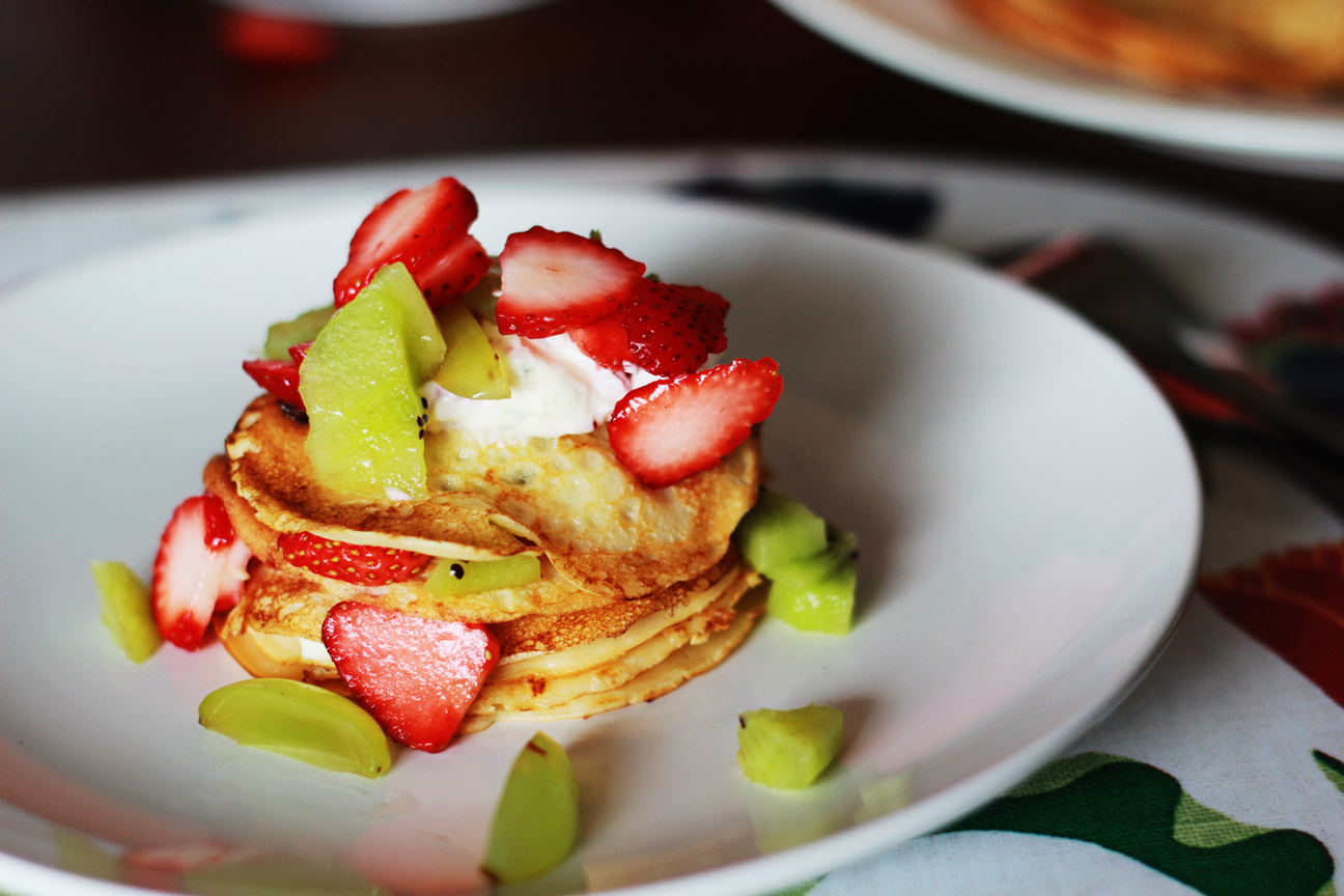 Crepes with grapes, whipped cream and strawberries